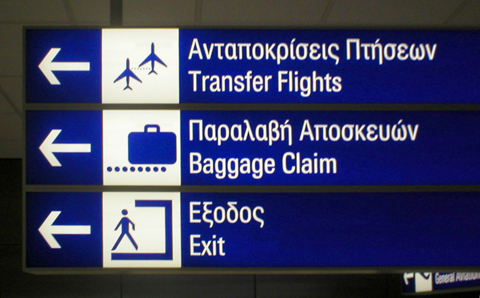 Visual communication system at Athens Airport using the Univers 57 typeface and the Otl Aicher pictograms. Photo: Christos Vittoratos